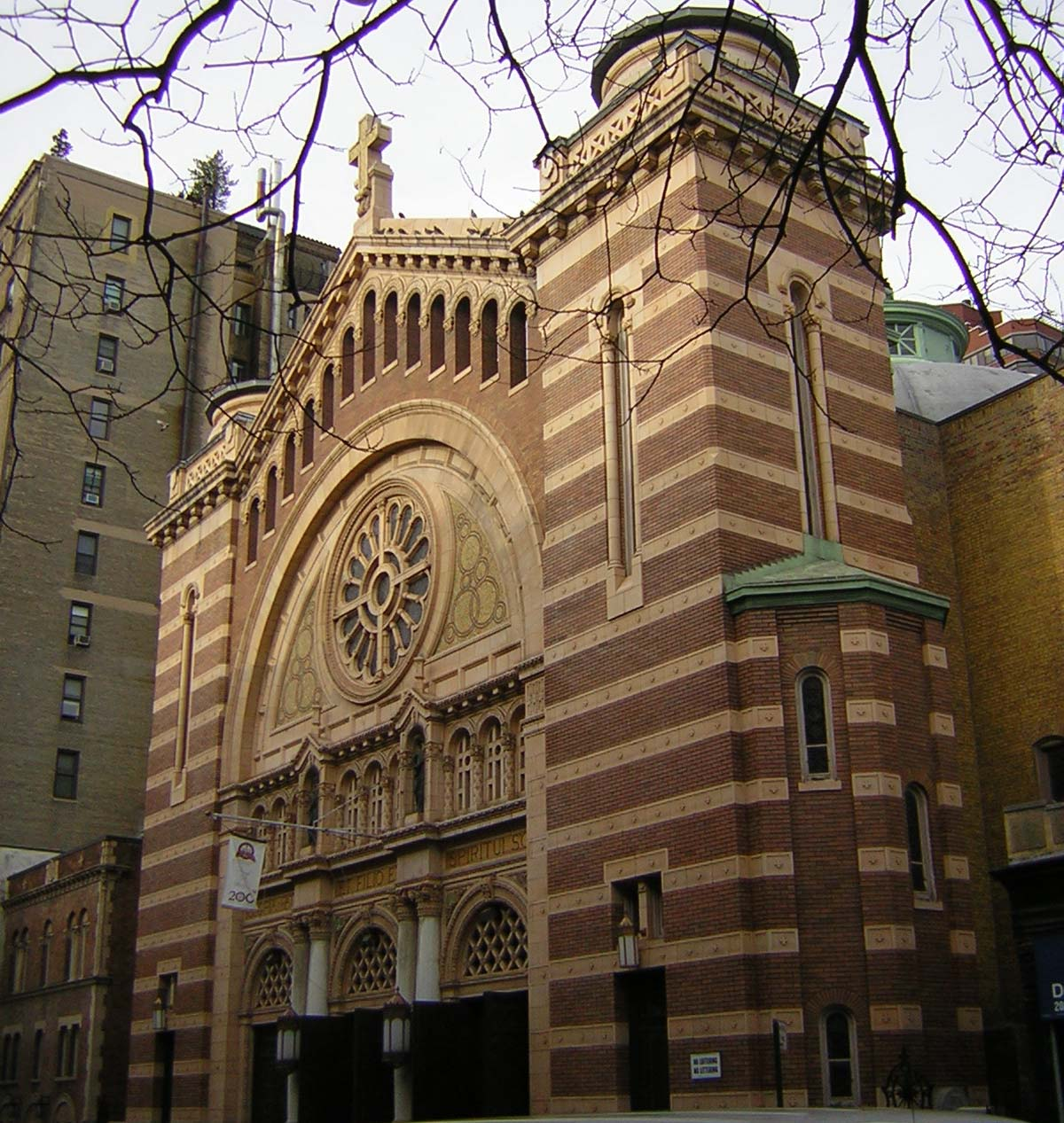 Roman Catholic Church of the Holy Trinity at 213 West 82nd Street between Amsterdam Avenue and Broadway on the Upper West Side on a warm, slightly cloudy midwinter early afternoon External links Organ and brief history